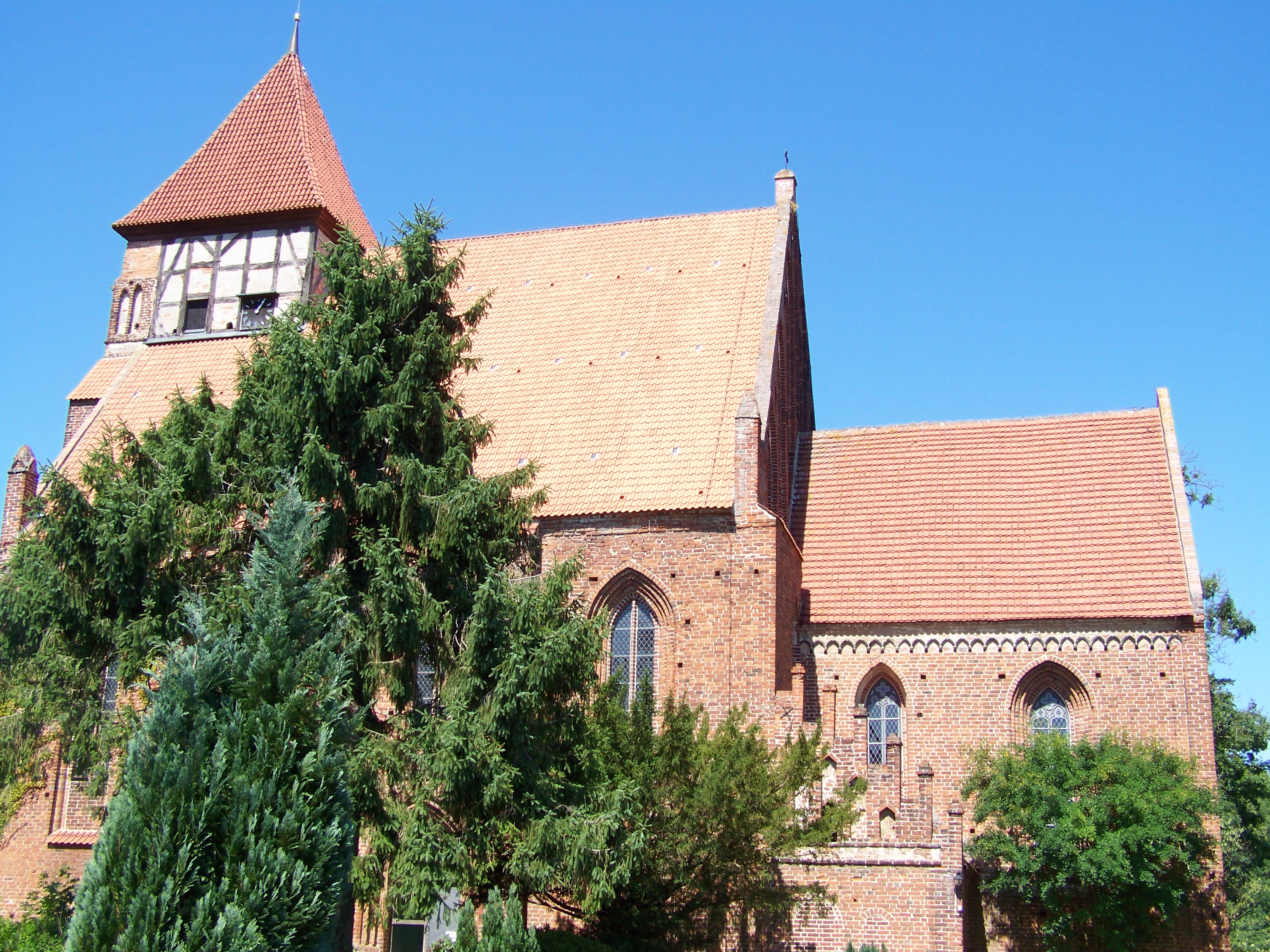 Dorfkirche Brandshagen